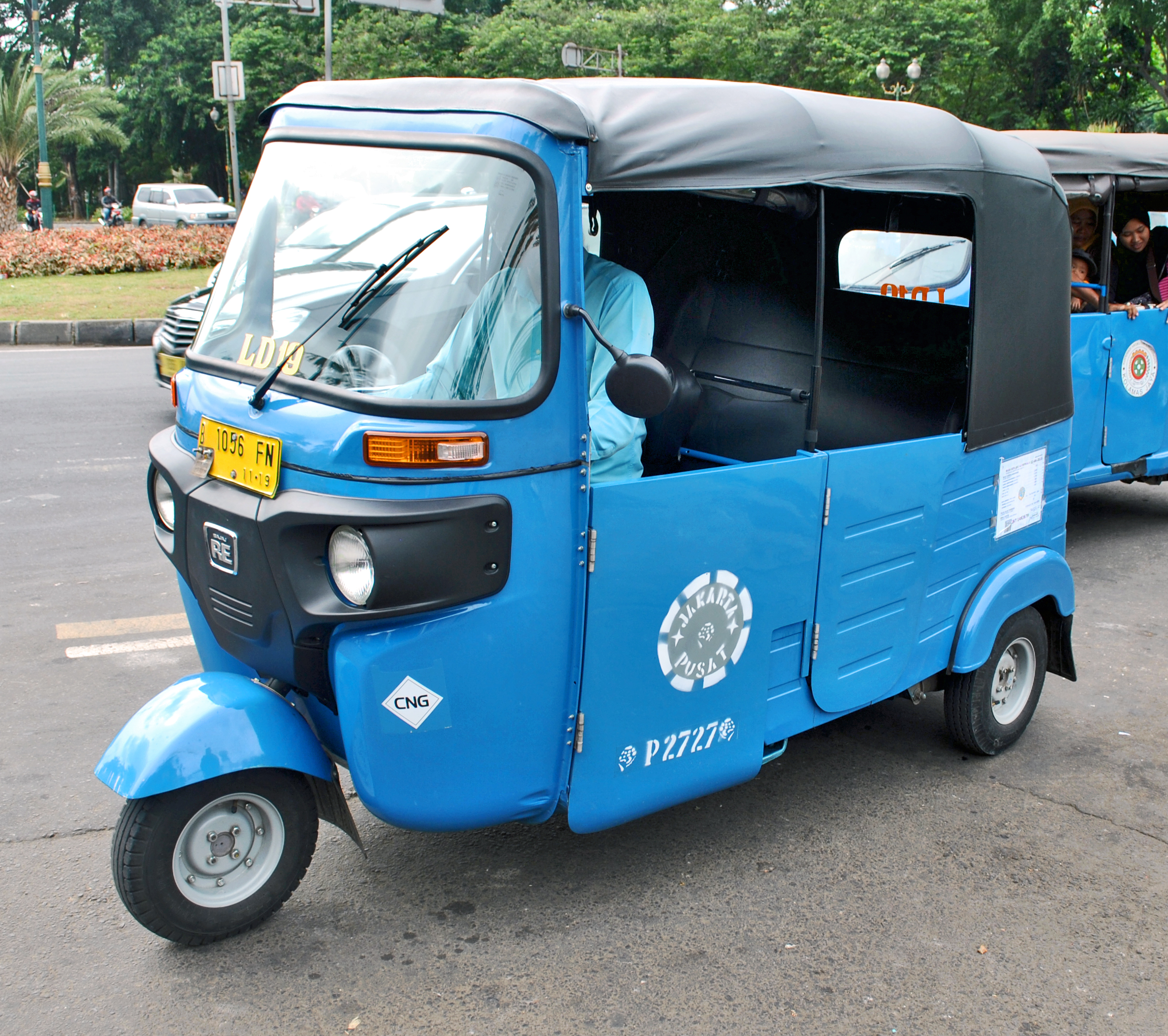 Front view of Bajaj RE auto rickshaw (we called it bajaj) in around Medan Merdeka, Jakarta. Looks civilised compared to Indian ones, even this is made in India.